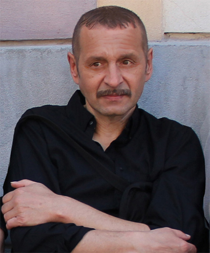 Vladimír Hirsch composer)